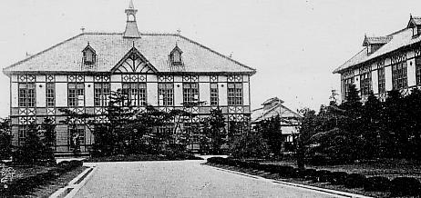 Nara Women's Higher Normal School